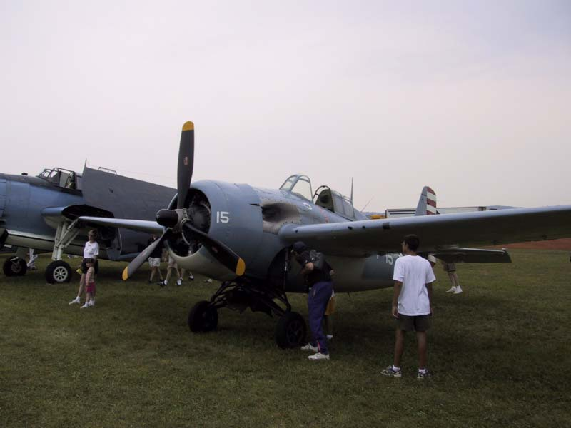 US FM-2, a variant of the F4F fighter